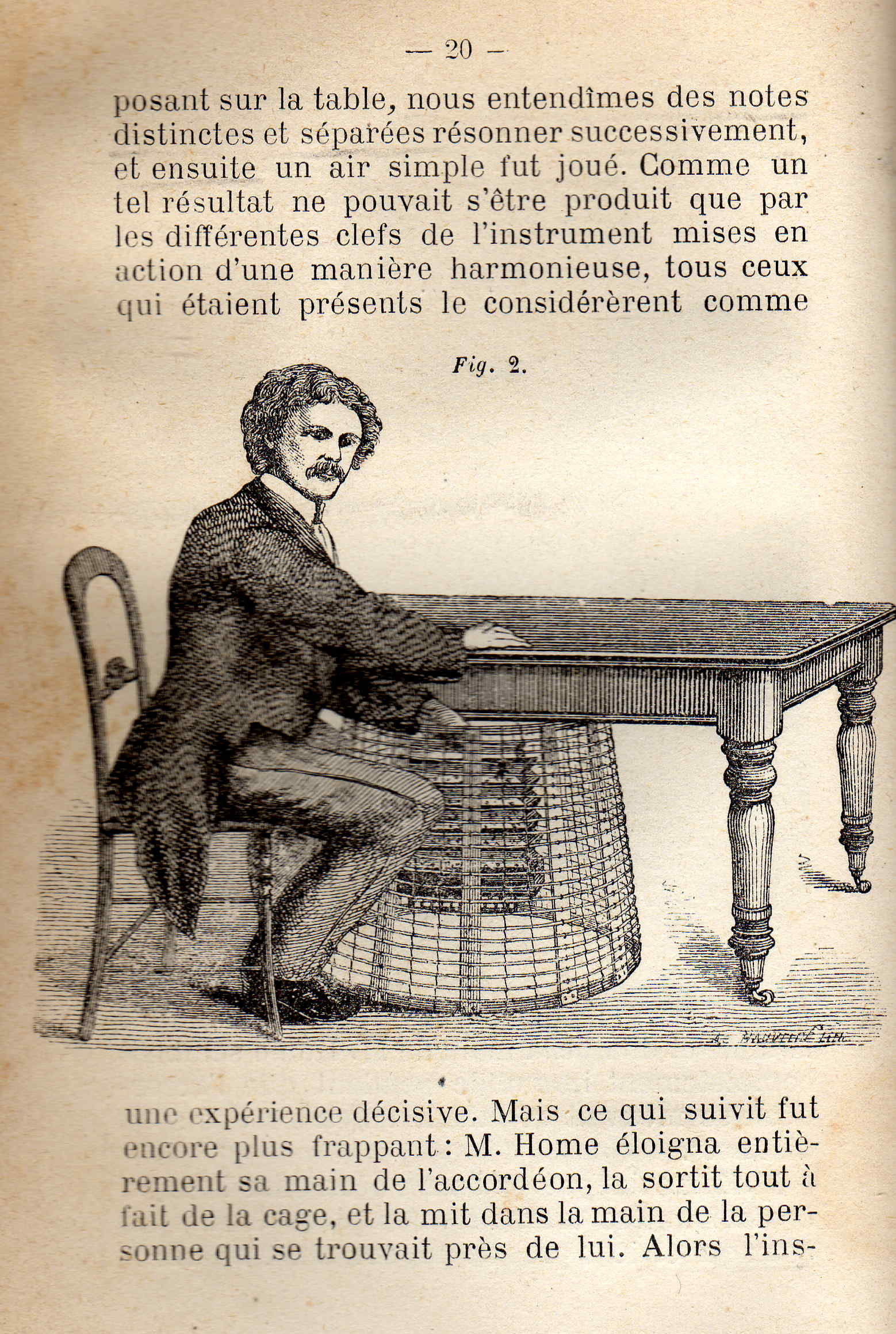 Depiction of Daniel Dunglas Home while performing. Text and picture from William Crookes (translated to French by P.-G. Leymarie), Nouvelles expériences sur la force psychique, Librairie des sciences psychologiques, 1878, page 20.